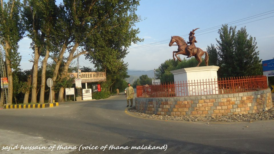 thana lower bypass